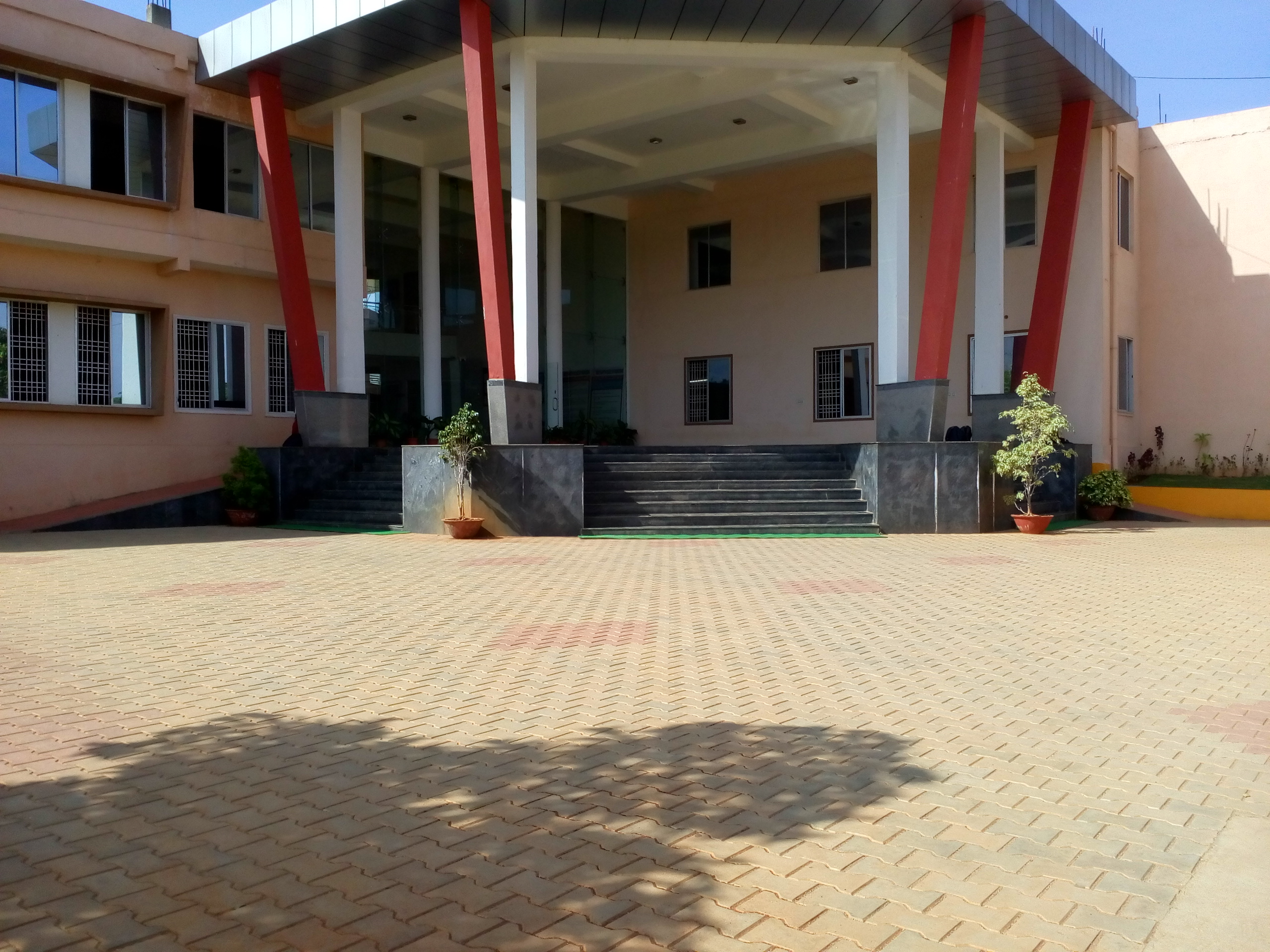 Shri Pillappa College of Engineering, Bangalore.